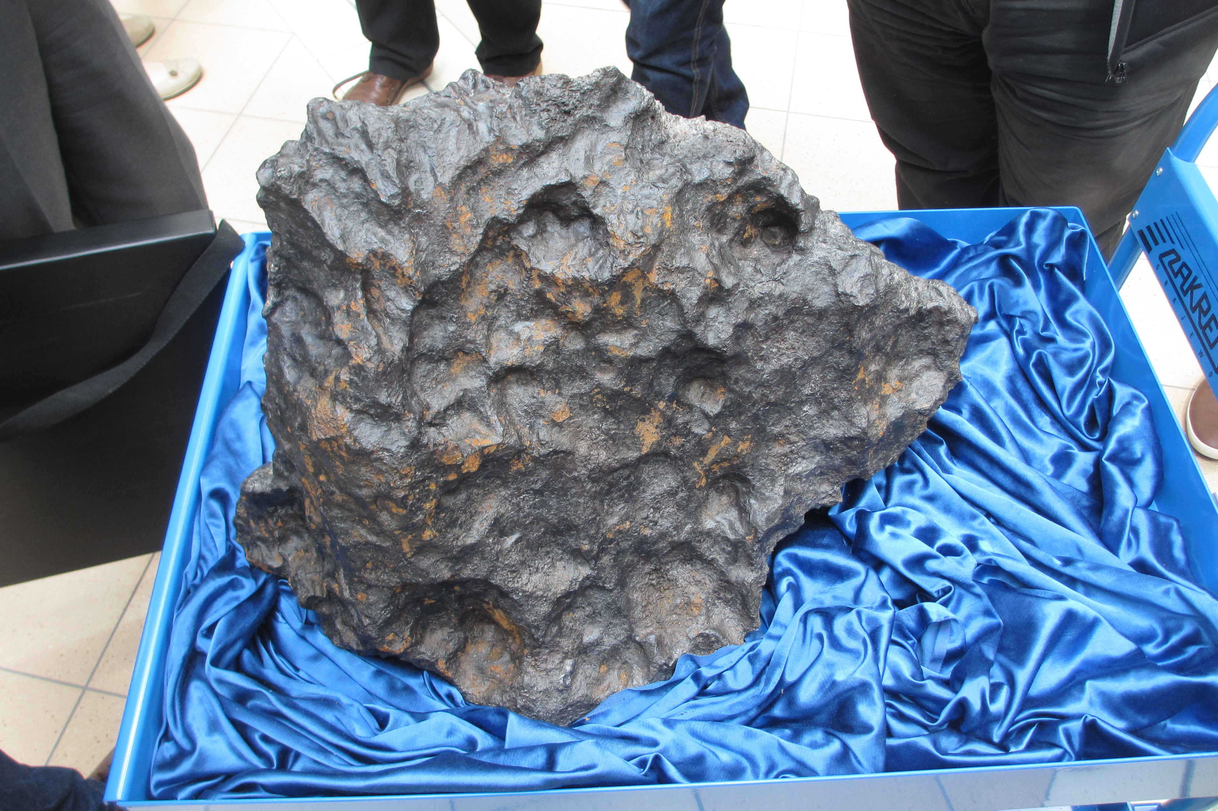 Collegium Geographicum in Poznań, Poland